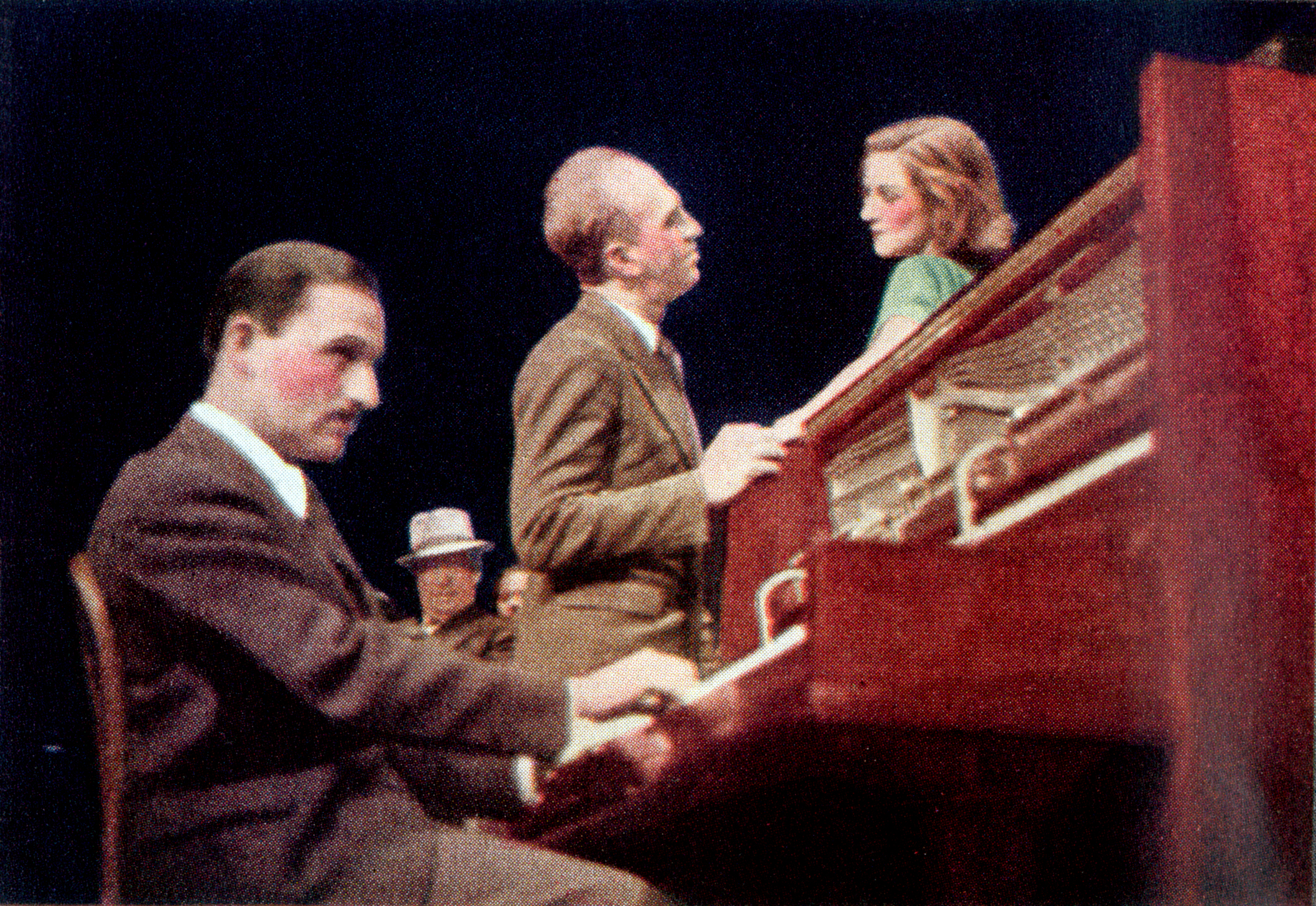 Photograph of Marc Blitzstein. Howard Da Silva and Olive Stanton in the Mercury Theatre stage presentation of The Cradle Will Rock, part of a feature story titled "The Man from Mercury" (pp. 98–102)